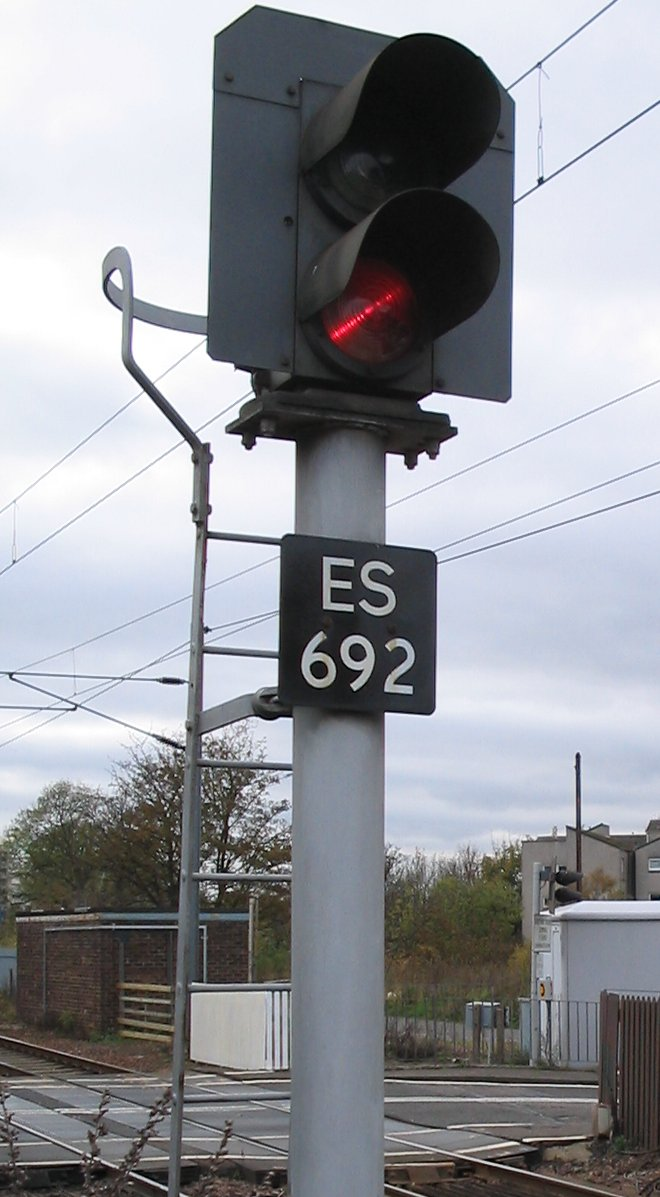 Network Rail two-aspect railway signal ES692 guarding a level crossing.